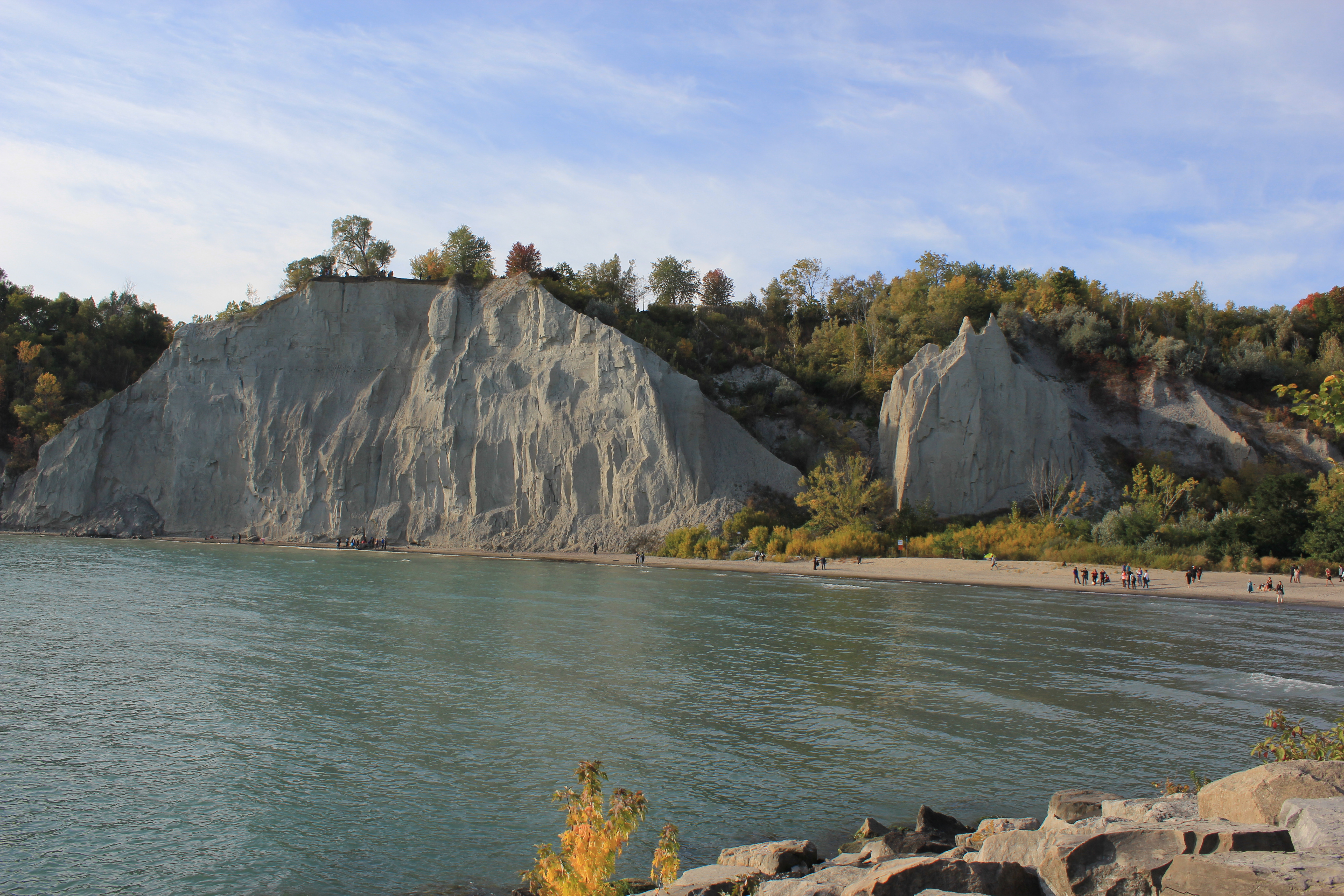 Scarborough Bluffs and Bluffers Park. Scarborough, Toronto, Ontario, Canada